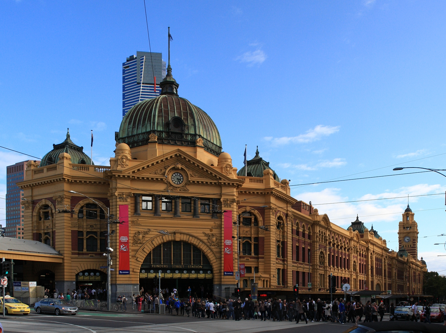 Flinders Street Train Station Melbourne, Victoria